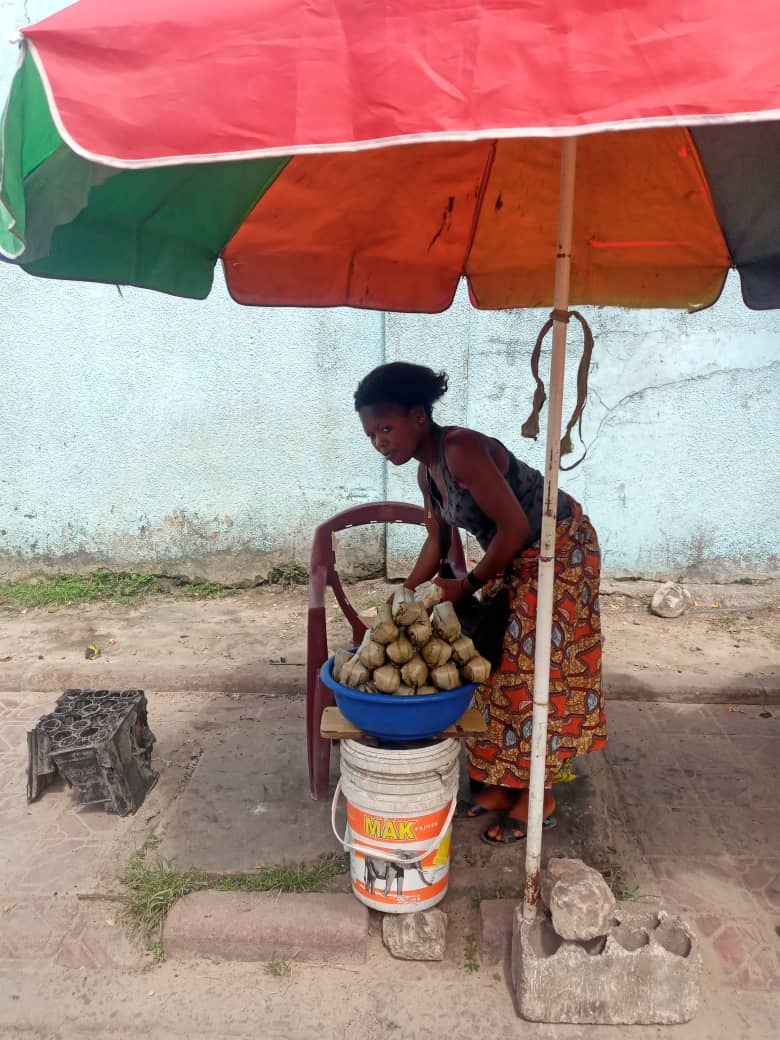 This is an image with the theme "Africa on the Move or Transport" from: Democratic Republic of the Congo